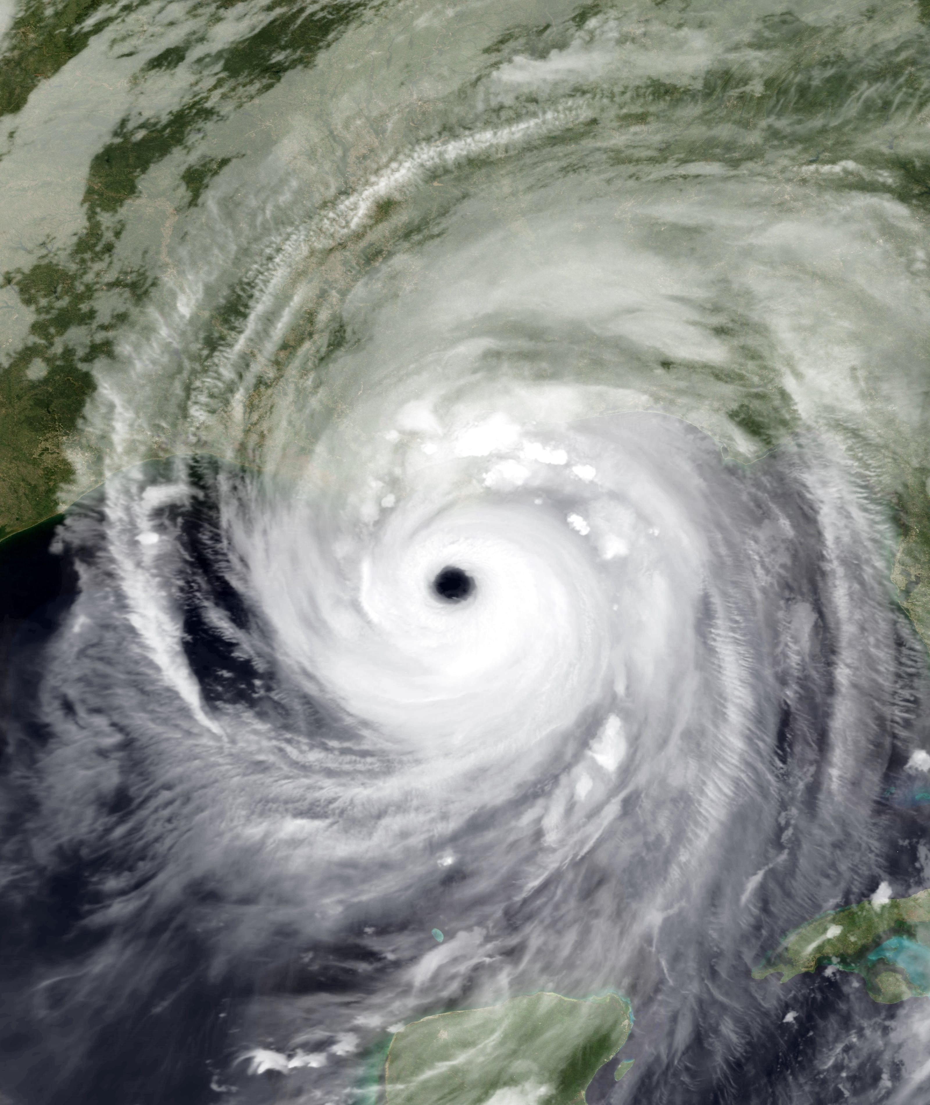 Hurricane Katrina on August 29, 2005